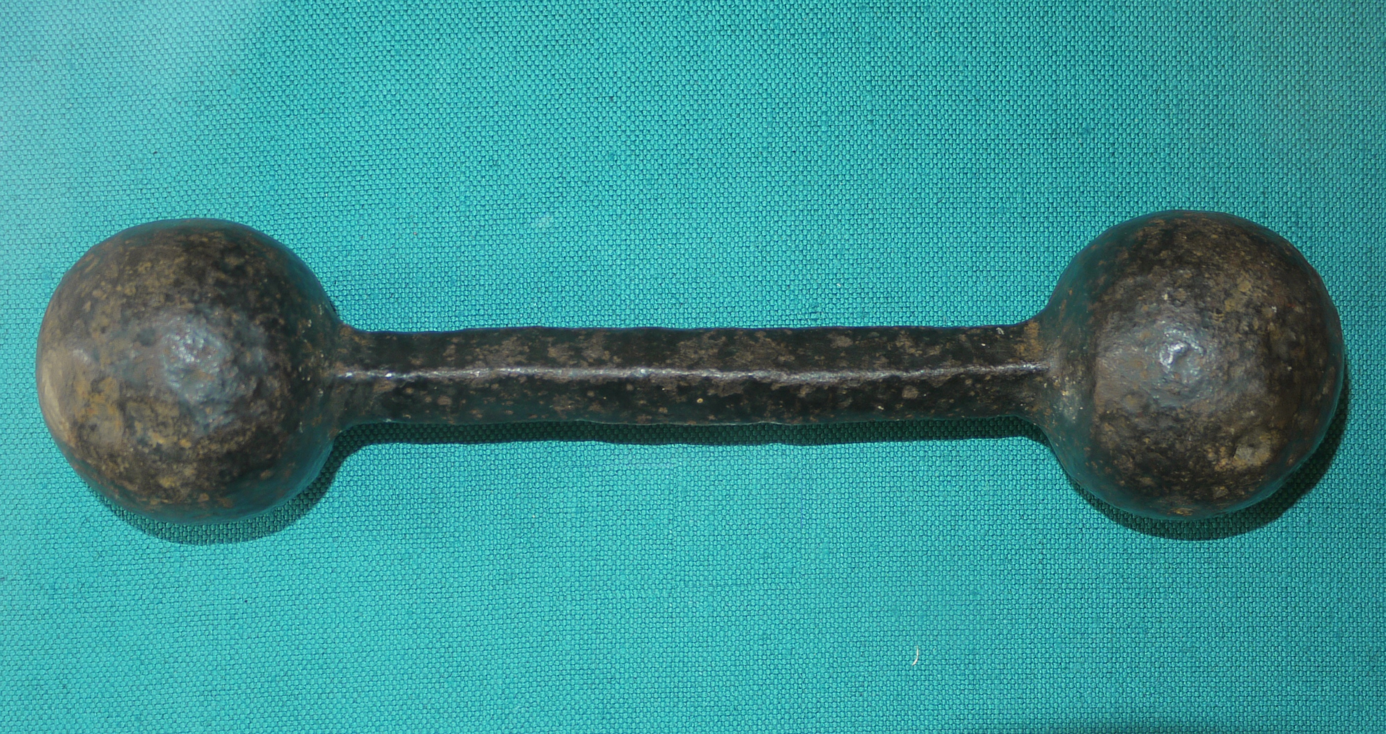 Photo of an example of bar shot at fort nelson